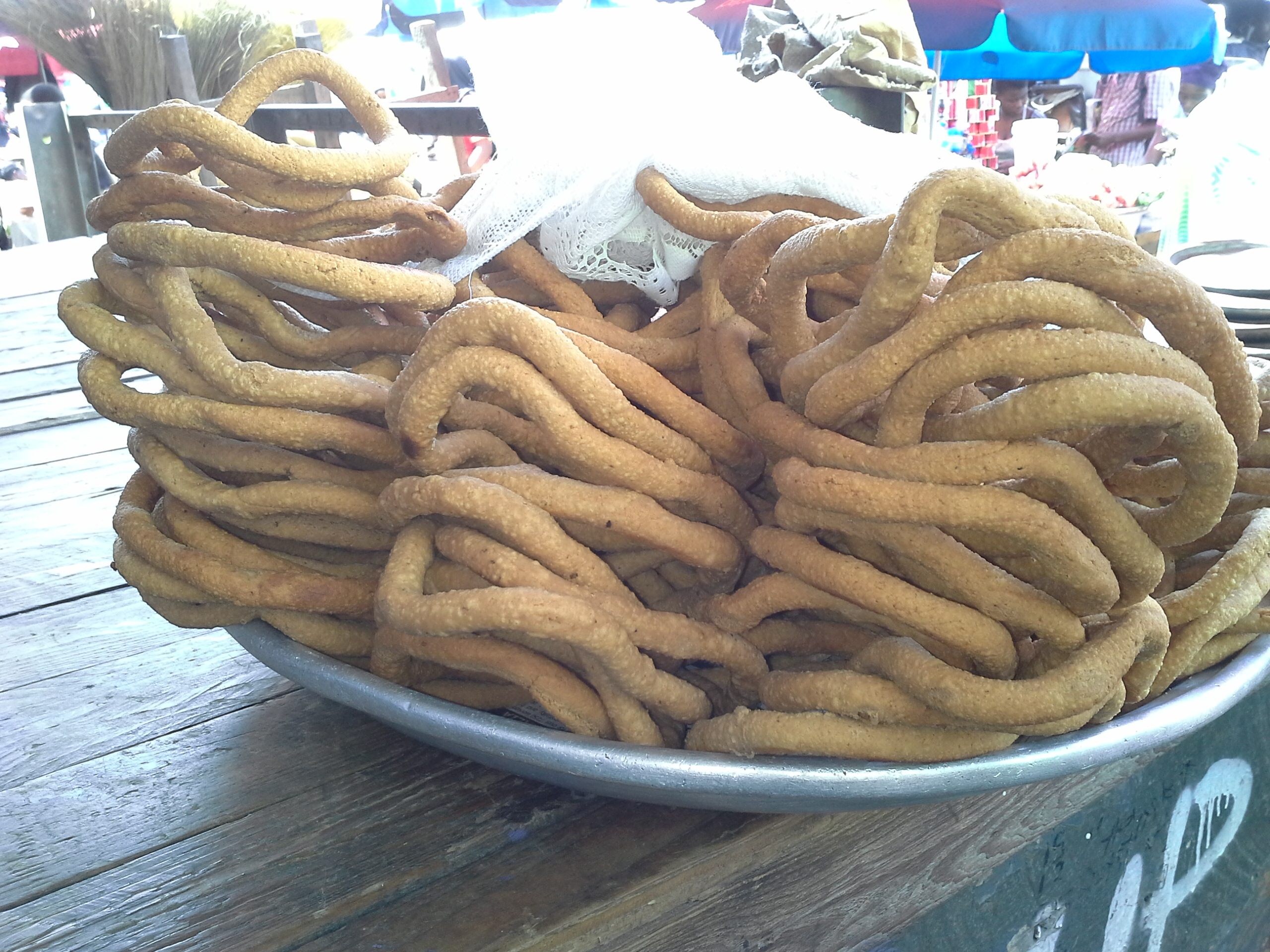 A popular Ghanaian snack This is an image of food from Ghana